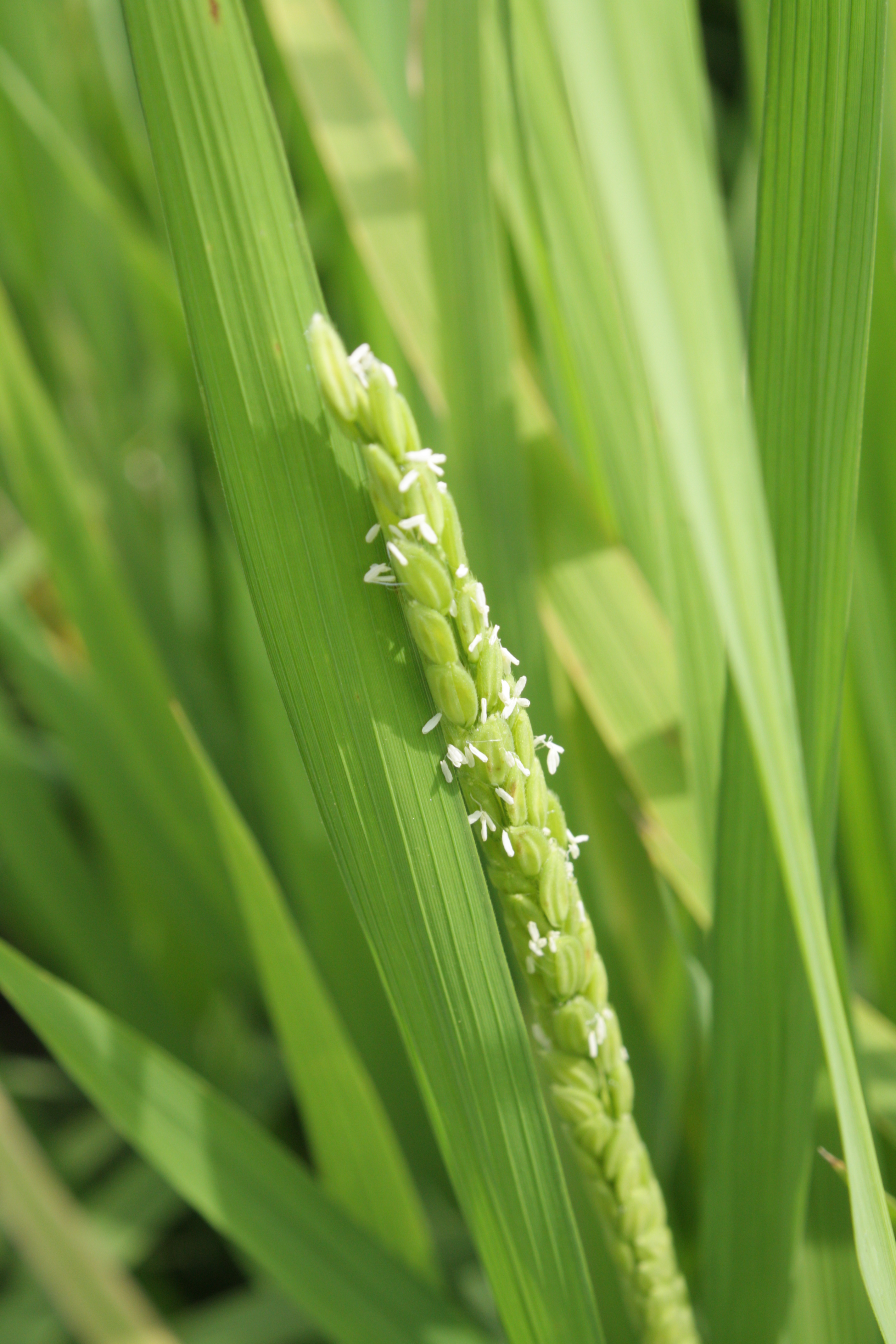 Oryza sativa in Sunchang, Korea